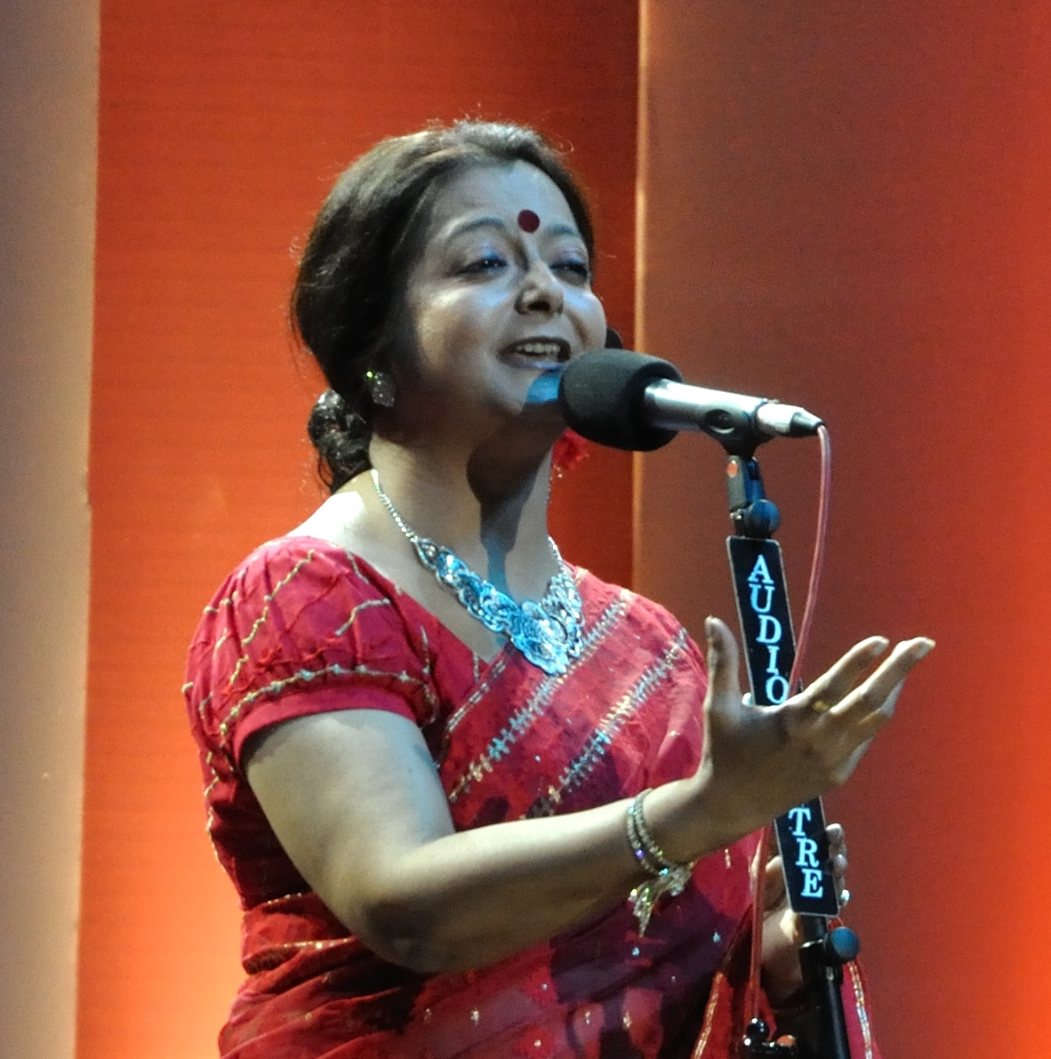 Commemoration of 150th birth anniversary of Rabindranath Tagore, organized by the Ministry of Culture, Government of India. It was an Indo-Bangladesh joint celebration, held at the Science City, Kolkata on 9 may, 2011.